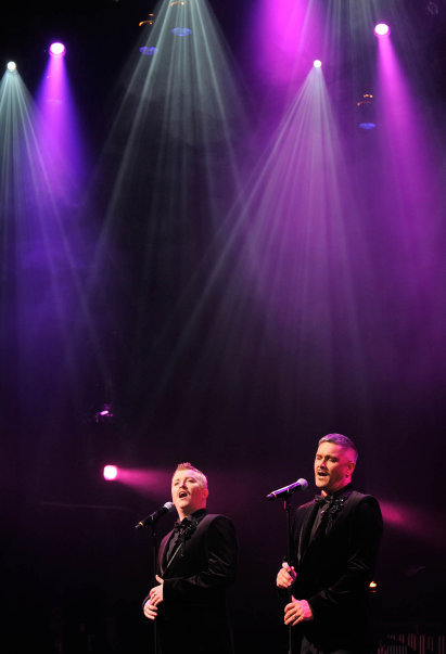 Sean-Magnus on stage